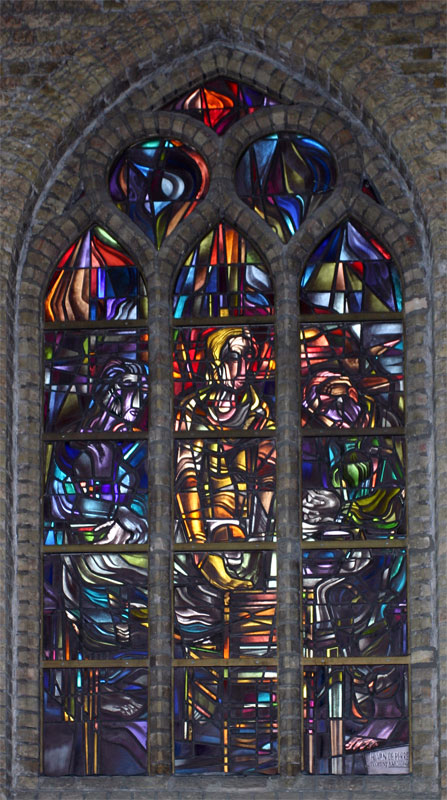 Stained glass window made by A. Mestdagh in the Begijnhof of Diksmuide.